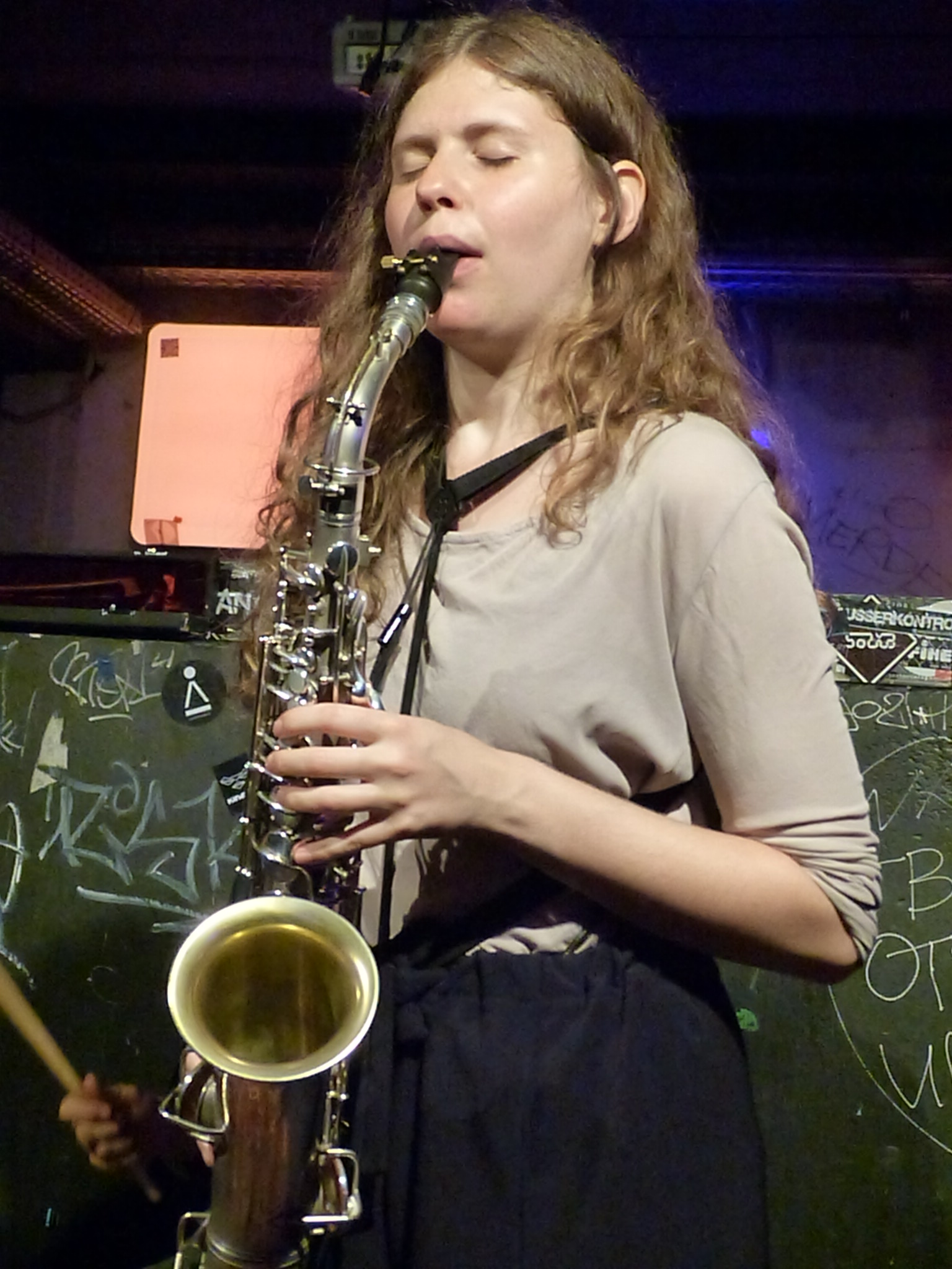 Anna-Lena Schnabel (sax,fl) in concert of the ensemble F Hera X with Sebastian Gramss (b), Reza Askari (b), Etienne Nillesen (dr), and Fabian Dudek (sax) at ARTheater, Cologne, Germany, August 15th, 2017